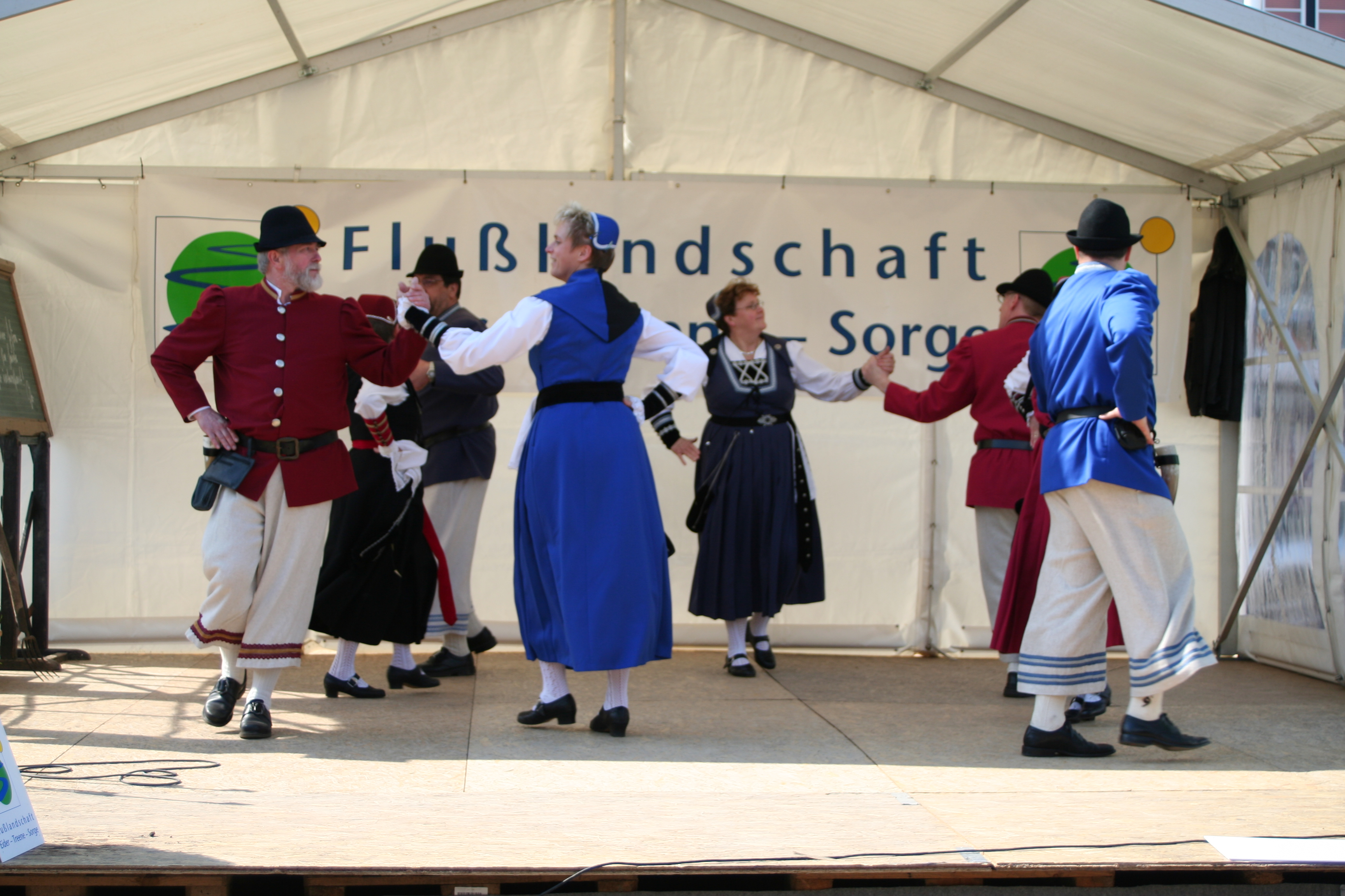 Traditional dancers from Dithmarschen, Northern Germany.